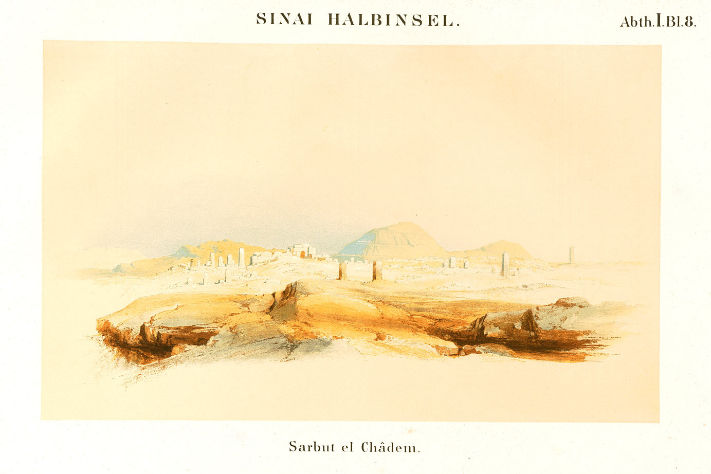 Serabit el-Khadim, Sinai Peninsula, Section.I.Page.8. Monuments from Egypt and Ethiopia according to the illustrations by die scientific mission ordered by His Majesty the King of Prussia, Frederick William IV. and undertaken to these countries in the years 1842-1845.